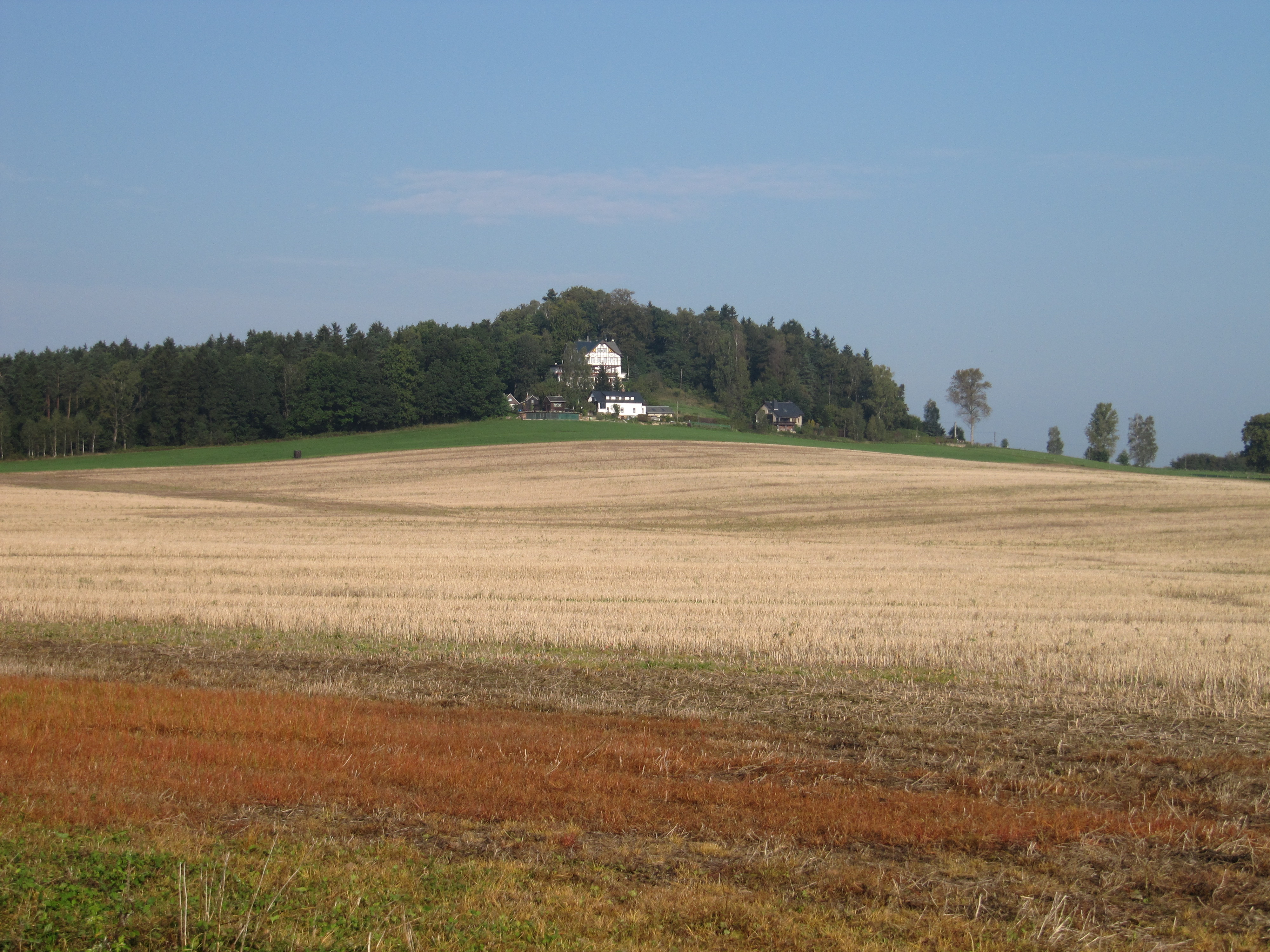 The Wolfsberg hill in Saxon Switzerland looking from the edge of the forest just north of the village of Reinhardtsdorf, Saxony, Germany.